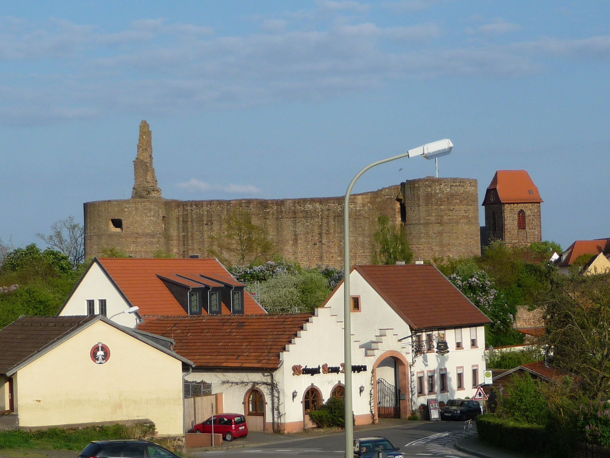 Neuleiningen Castle is a ruin on the eastern edge of the Palatinate Forest in the state of Rhineland-Palatinate in Germany in the municipality of Neuleiningen in the Bad Dürkheim district.